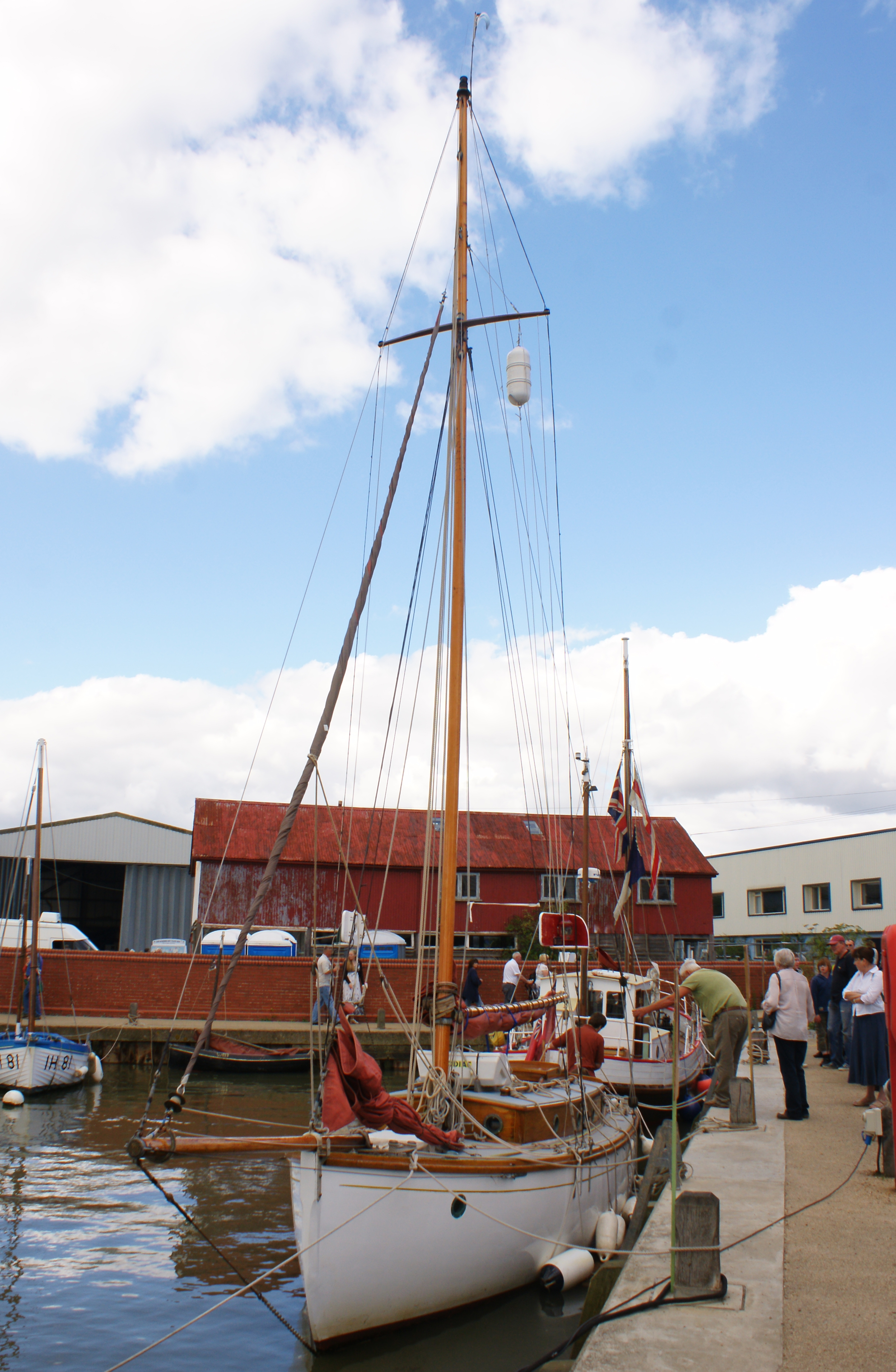 Arthur Ransome's boat Nancy Blackett at the Woodbridge Maritime Festival, Woodbridge, Suffolk, England, 12 September 2009. Photograph by chelmsfordblue via Flickr.